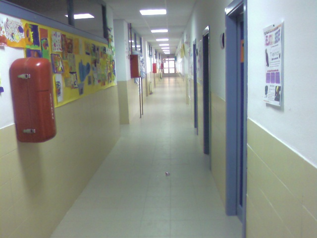 Spanish Primary School corridor